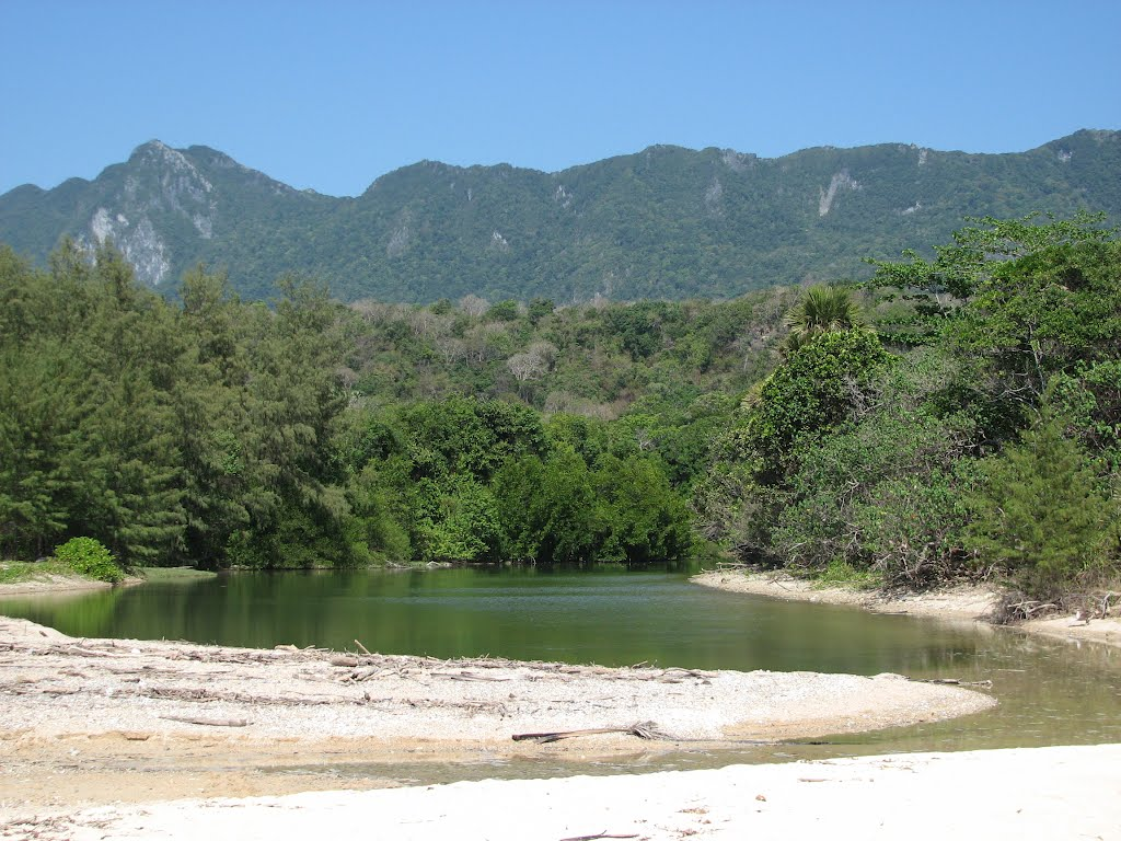 Vero River estuary (extensive tropical forest wilderness), Tutuala village, with Paitchau Range background, Lautem, Timor-LesteEast Timor